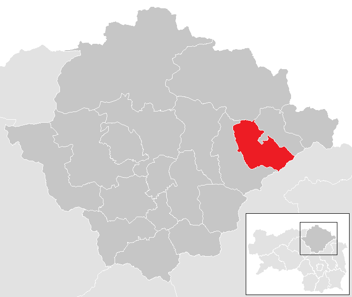 district Bruck-Mürzzuschlag